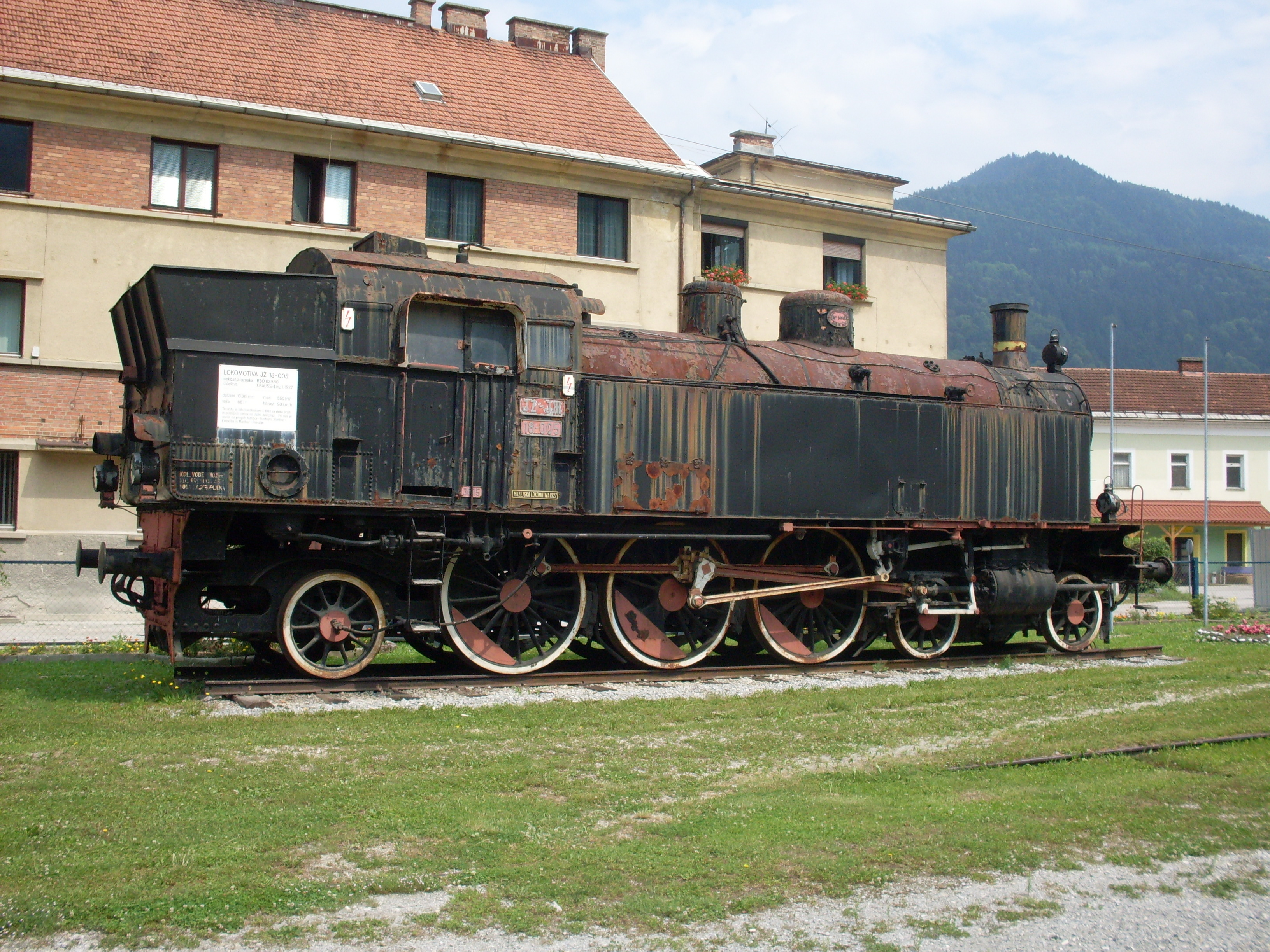 Standard gauge steam locomotive JŽ 18-005 (formerly BBÖ 629.80, during the WW2 DRB 77 265) at the railway station in Dravograd, Slovenia. Data from the locomotive's info sheet: Produced by Krauss Linz in 1927, serial nr. 1445 Length: 13315 mm, power: 550 kW, weight: 66.1 t, max. speed: 90 km/h This class was designed in 1913 to pull express and passenger trains on the Southern Railway (Südbahn). In Slovenia it was in use at sections Maribor - Postojna, Maribor - Kotoriba and Maribor - Prevalje. Pospichal Lokstatistik. More info. More photos: 1 and 2.